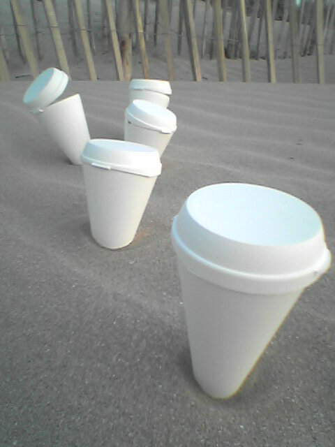 Conical ashtray for the beach for the recovery of cigarette ends.